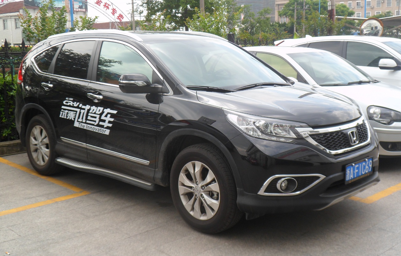 Honda CR-V RM photographed in Shanghai, China.